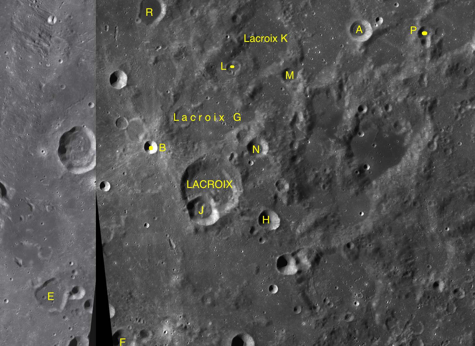 Parts of the charts LAC-109, LAC-110 used for the presentation